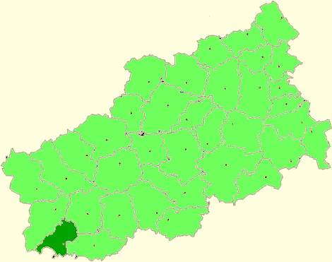 Tver Oblast map by Al Silonov